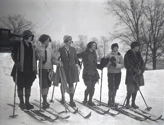 Skiers in High Park, Toronto, Canada